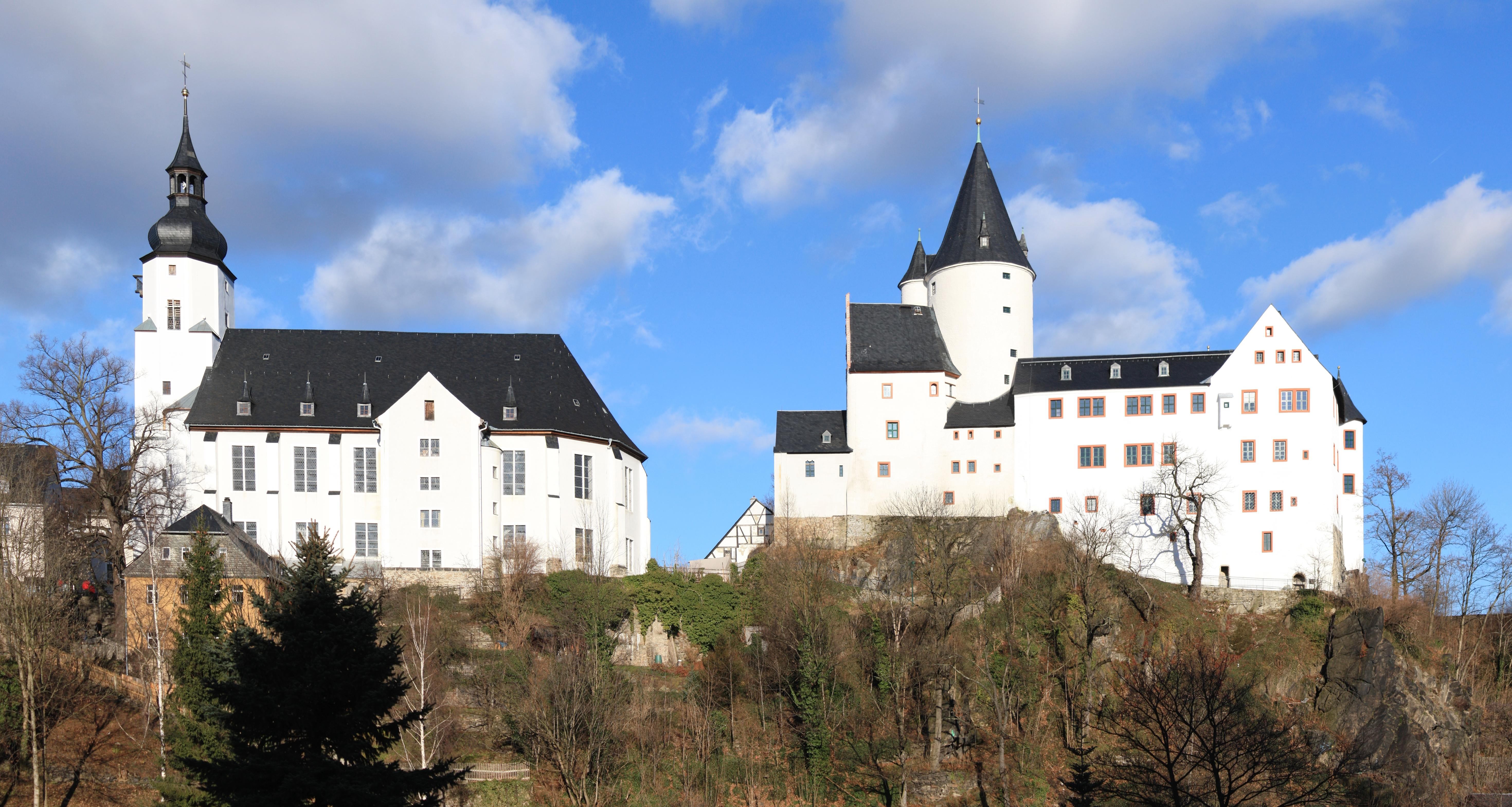 Schwarzenberg/Erzgebirge: Church and Castle